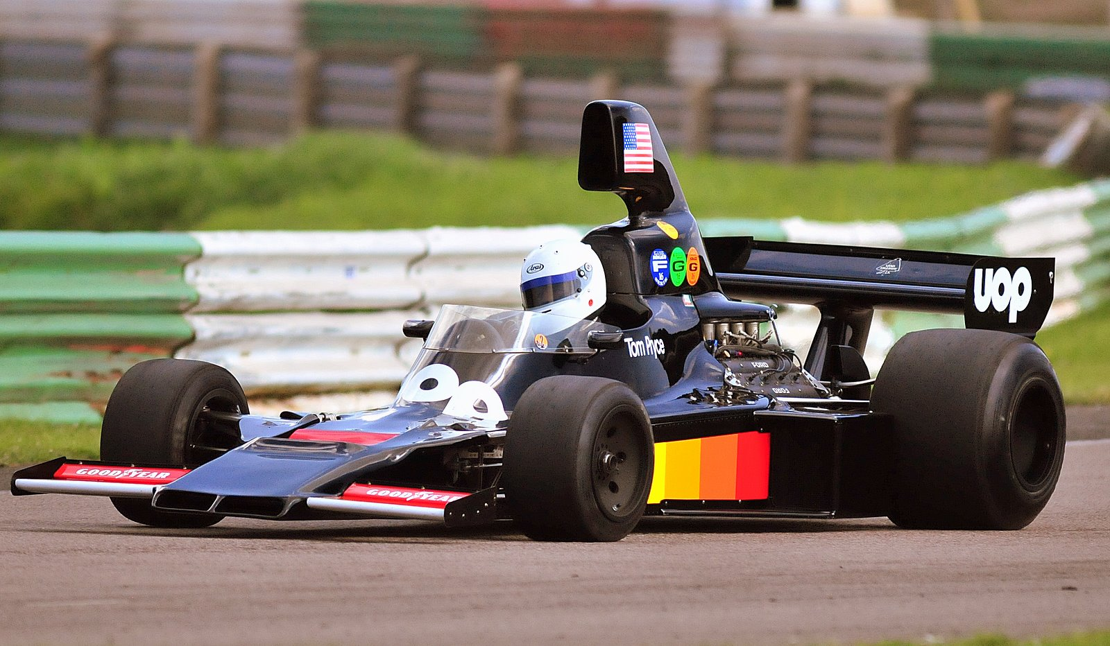 An ex-Tom Pryce Shadow DN5 Formula One car, on test at Mallory Park, April 2009.